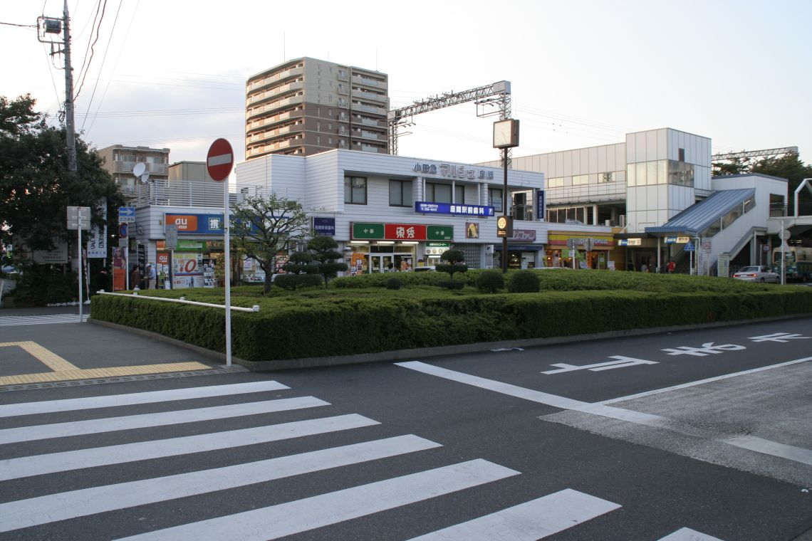 East entrance of Zama Station